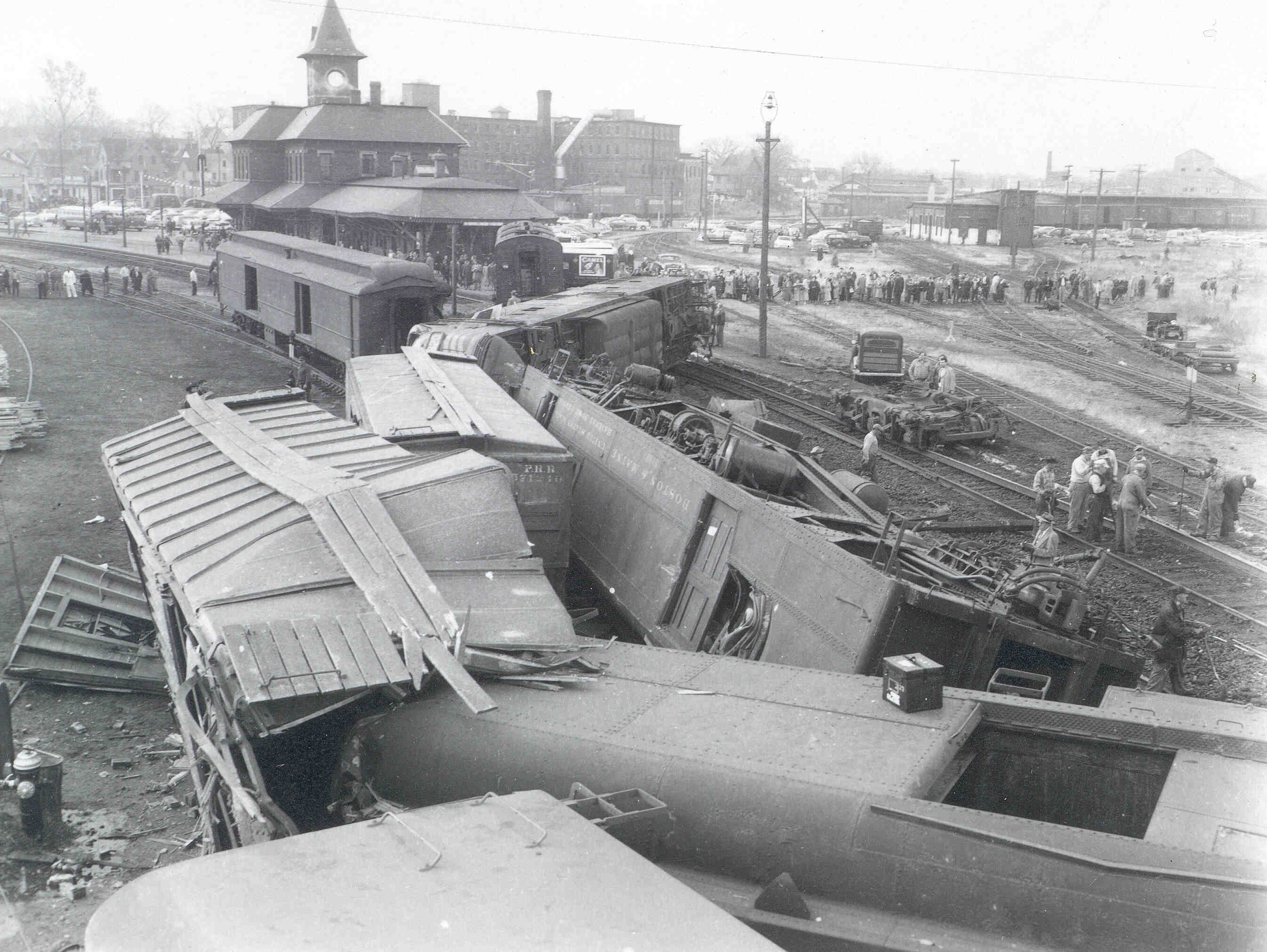 Date: November 13, 1954 Object number: A.2009-49 Medium: paper; photo-emulsion Description: Wreckage of Boston & Maine train #302, the Red Wing, just outside the Nashua, New Hampshire train station. The train had been traveling at a high rate of speed and derailed on a curve entering the station. The locomotives derailed, hitting freight cars on an adjacent siding as they moved. A female passenger was killed, and 53 others injured in the wreck. Among the injured was one of the Railway Post Office clerks, who was pinned under tables and furnishings in the mail car. That car, visible in the center of the photograph, landed on its roof. National Postal Museum, Curatorial Photographic Collection Photographer: Unknown Place: United States of America New Hampshire See more items in: National Postal Museum Collection Credit line: National Postal Museum, Curatorial Photographic Collection Photographer: Unknown Persistent URL: Repository:National Postal Museum View more collections from the Smithsonian Institution.